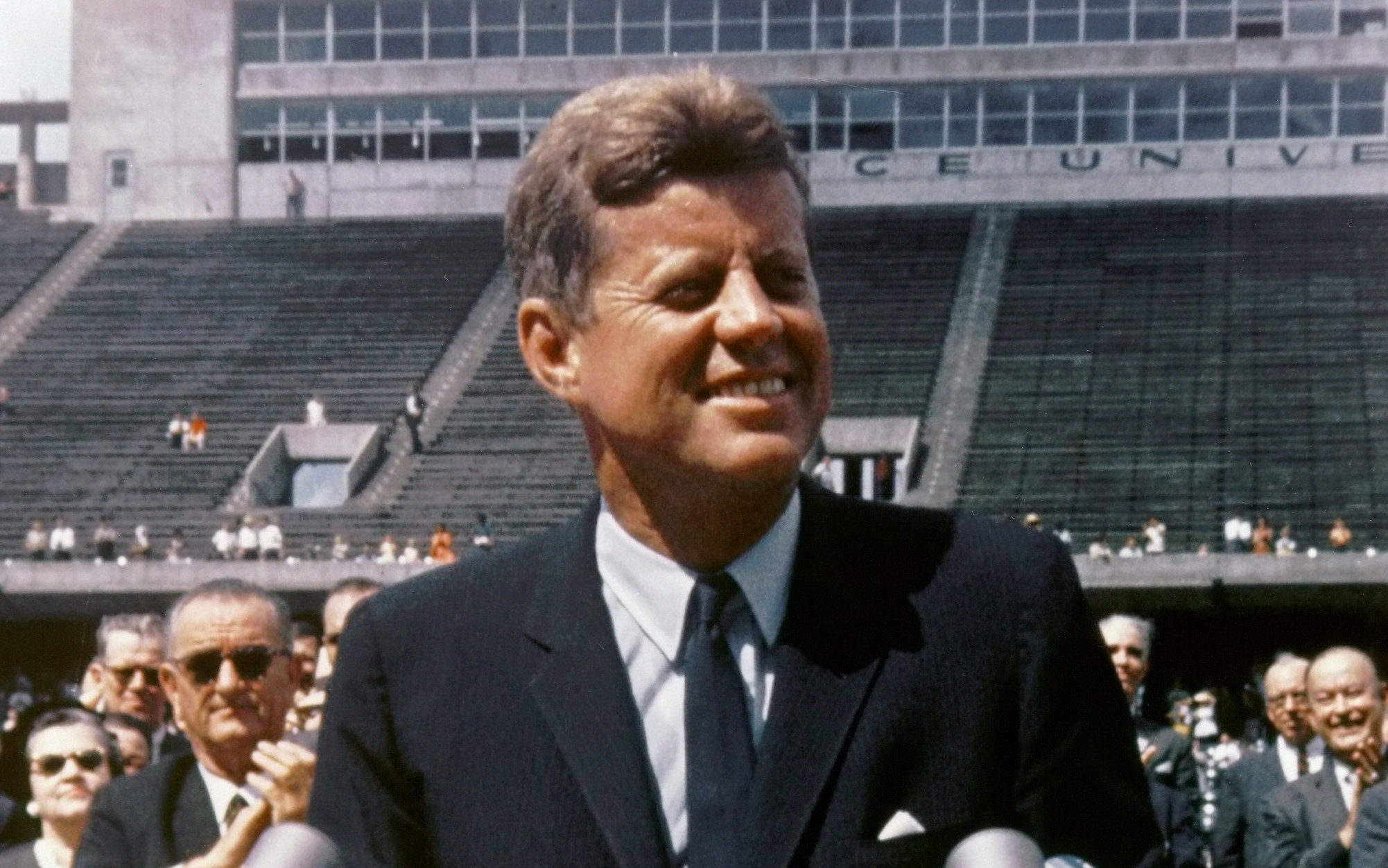 President John F. Kennedy speaking at Rice University